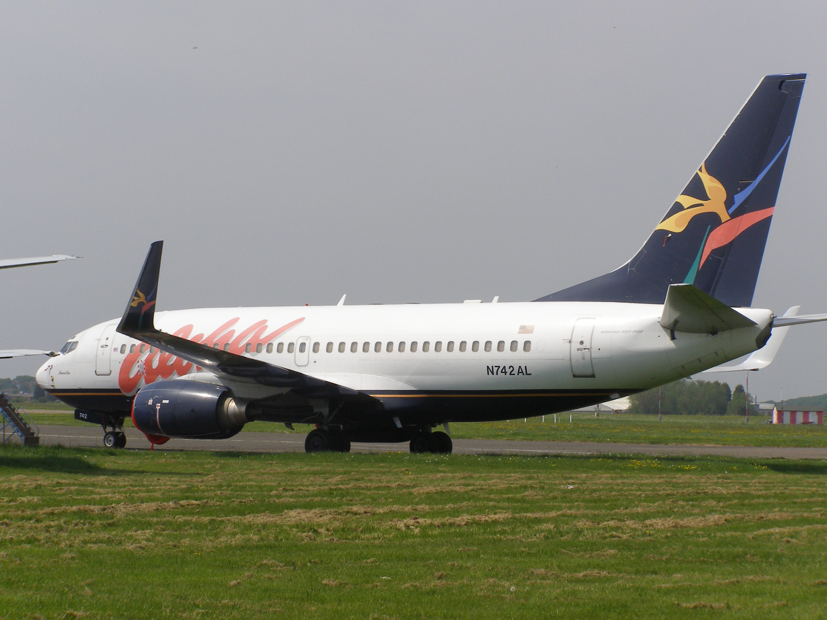 Former Aloha Airlines Boeing 737-76N registered N742AL at Southend Airport England